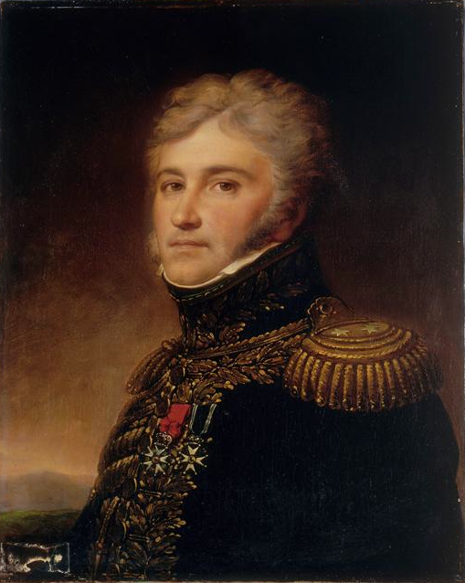 Portrait of General count Louis Lepic (1765-1827), a cavalry commander during the French Revolutionary and Napoleonic Wars